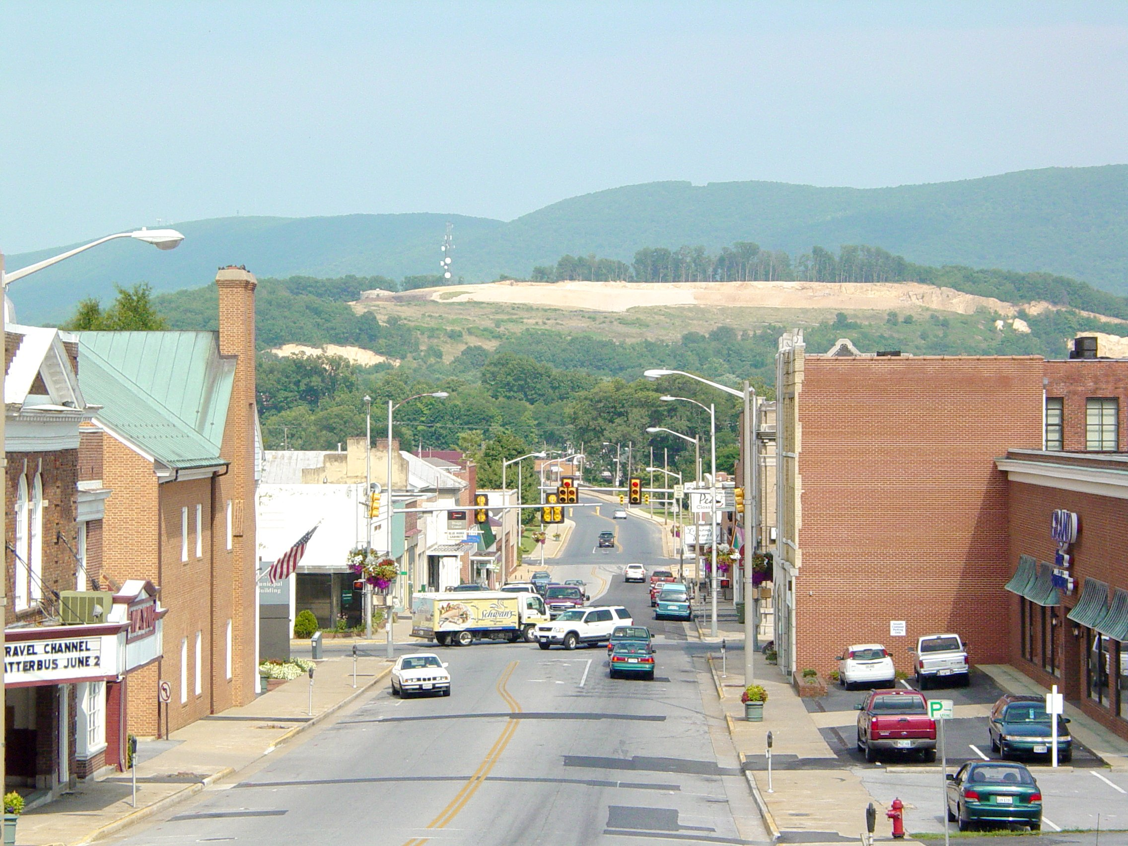 Downtown Waynesboro, Virginia showing Main Street, as well as the scar on the mountain prior to being seeded. The Wayne Theater is visible at the extreme left of the photo.